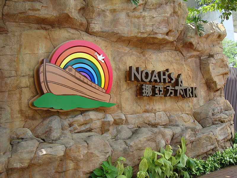 Front View of Noah's Ark, Hong Kong, (Transferred this image from Tamil Wikipedia)